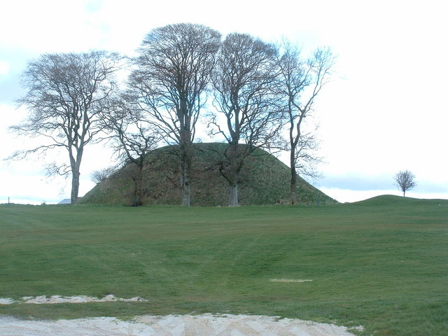 Motte, Carnwath Golf Course